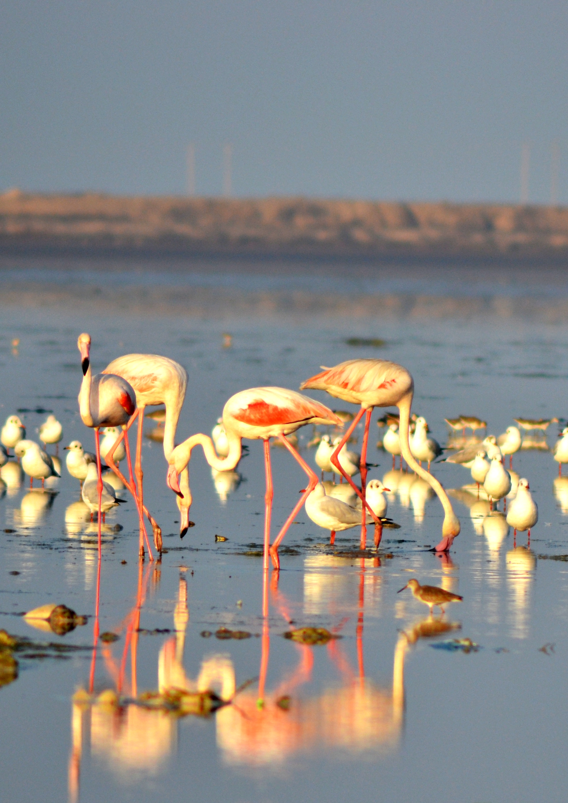 Greater Flamingo Phoenicopterus roseus commonly found in Jamnagar, Gujarat, India.